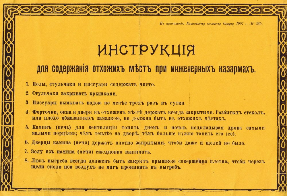 Regulations for keeping toilets in the Russian Army (Kazan military okrug, 1907)